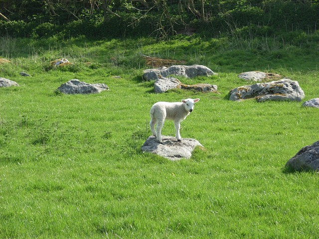 Lamb and sarsens, Piggle Dean The sarsens are the remains of the sandstone layer that once covered the area. There are many in Piggle Dean, a small dry valley, the lower part of which is National Trust property.